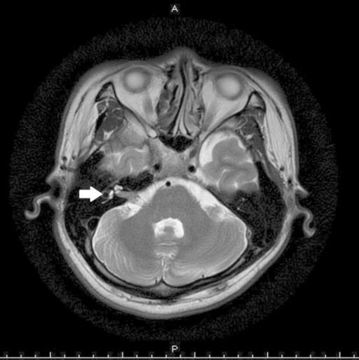 Contrast-enhanced T2-weighted magnetic resonance imaging reveals an intracanalicular tumor in the region of the cerebellopontine angle (shown by the arrow).